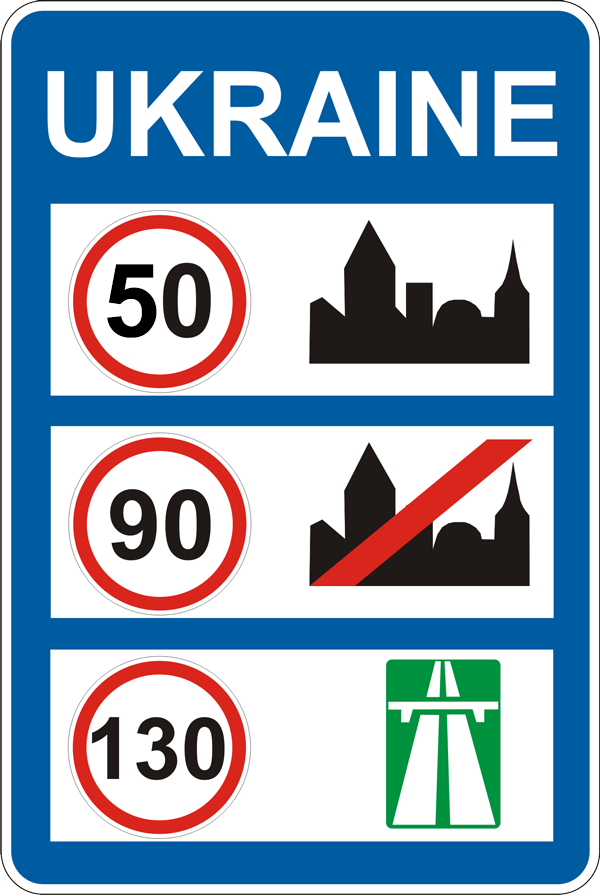 National speed limits.